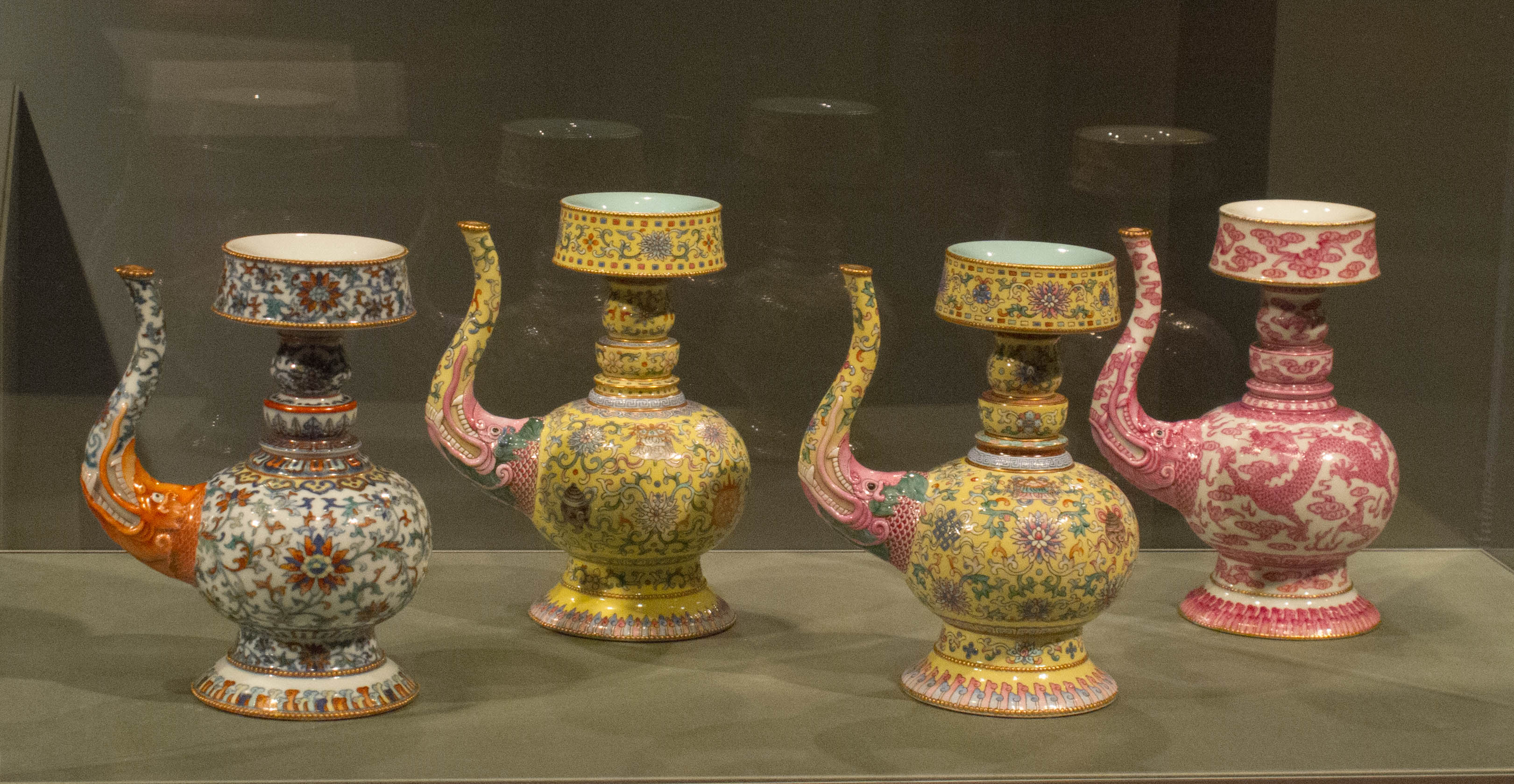 Four ritual water vessels. China; Jingdezhen, Jiangxi province. Qing dynasty, reign of Qianlong emperor (1736-1795). Porcelain with overglaze polychrome decoration. H. 8 in x W. 6 1/4 in x D. 4 1/4 in, H. 20.3 cm x W. 15.9 cm x D. 10.8 cm. Asian Art Museum, San Francisco.